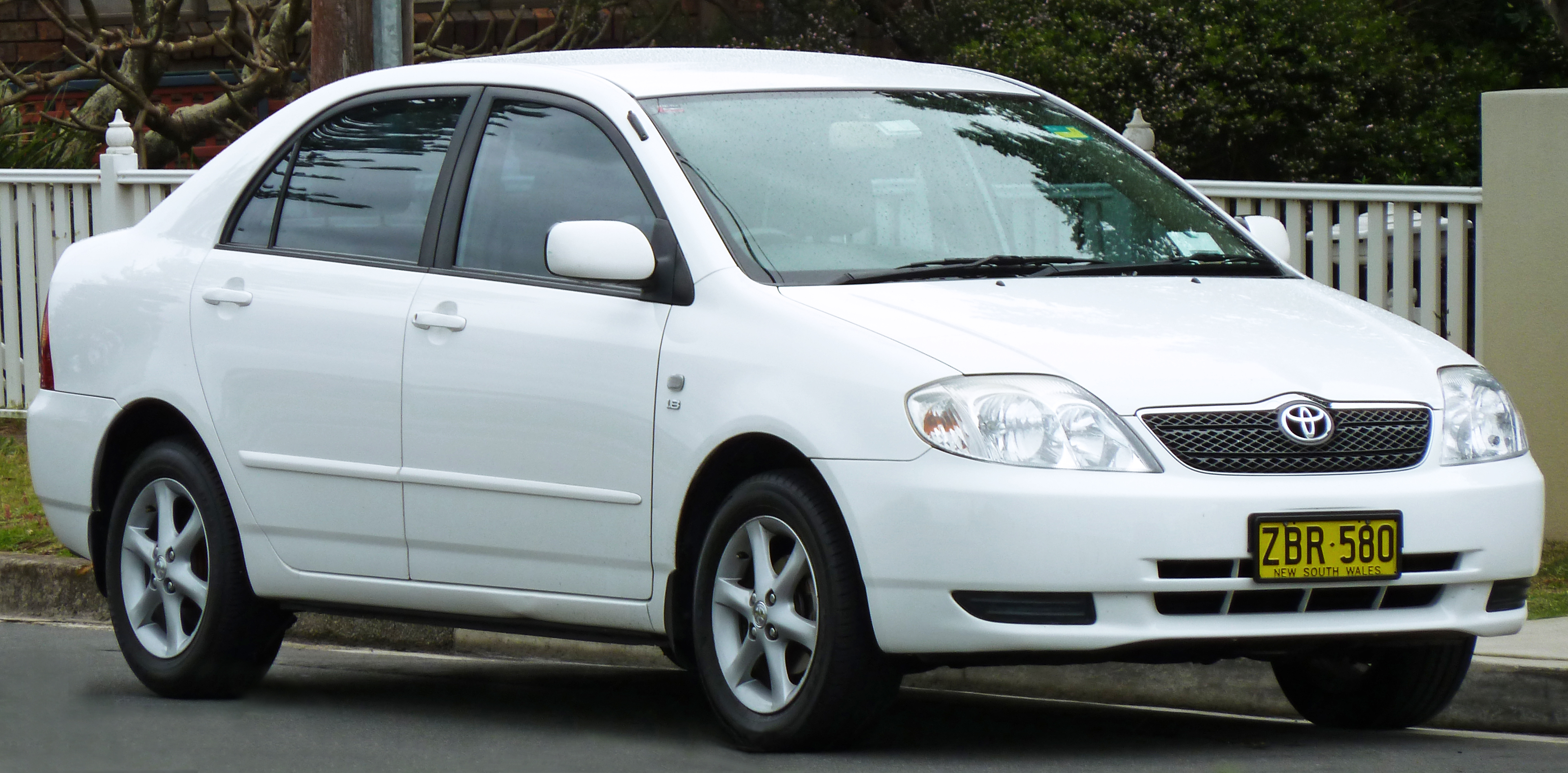 2003–2004 Toyota Corolla (ZZE122R) Conquest sedan. Photographed in Sans Souci, New South Wales, Australia.